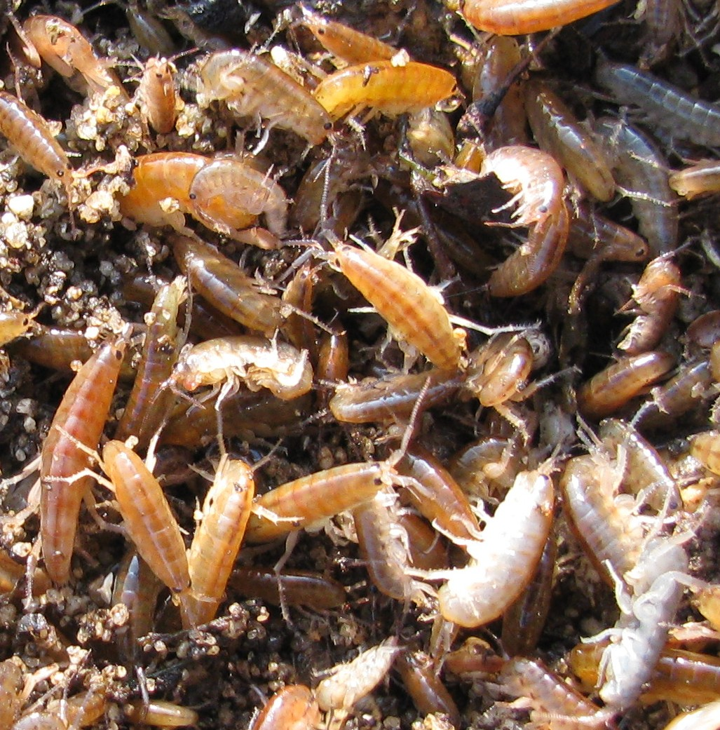 Orchestia gammarellus. A group seen after removing a large stone